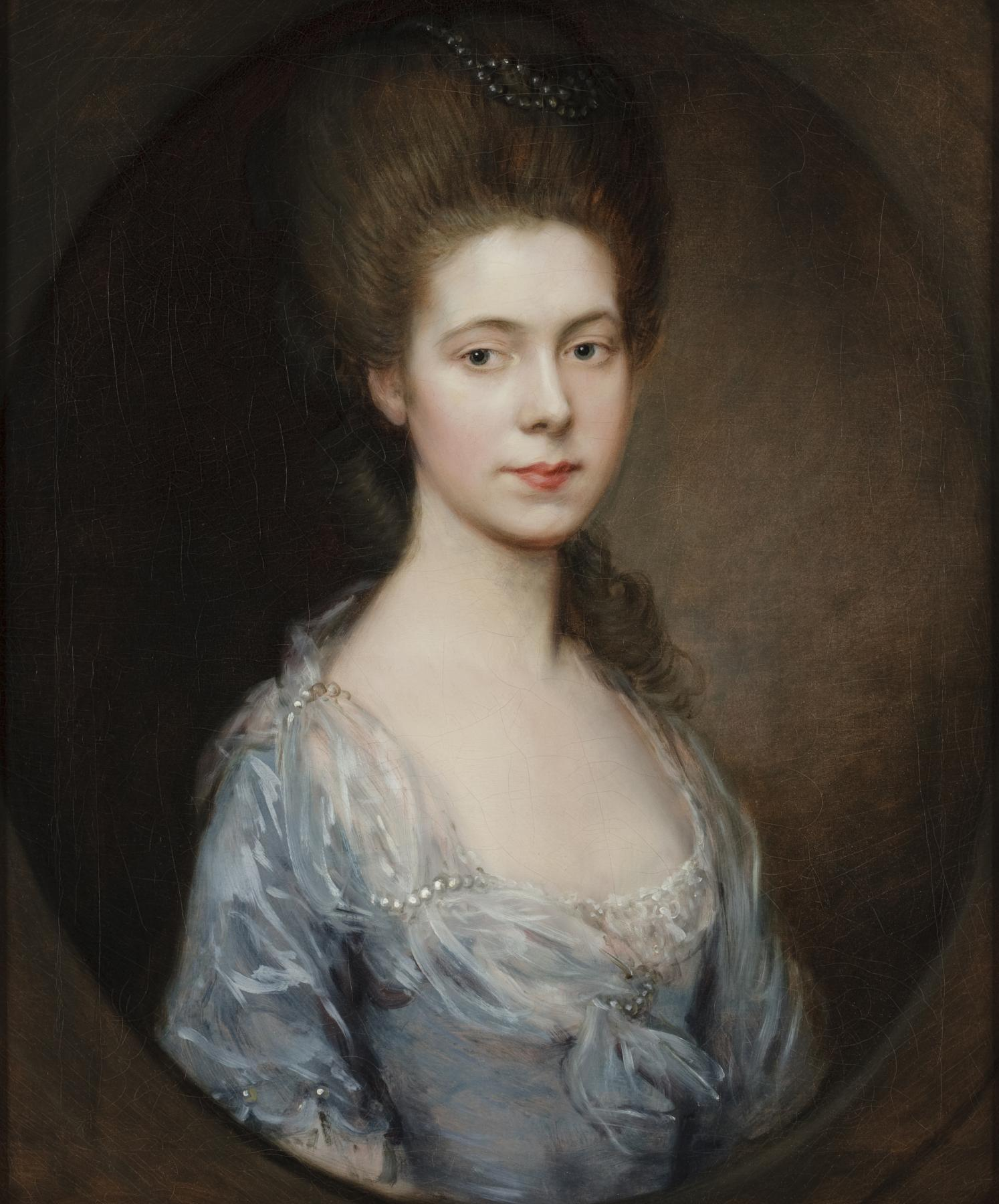 Mrs. George Oswald by Thomas Gainsborough, c 1770-74, Museum of the Shenandoah Valley